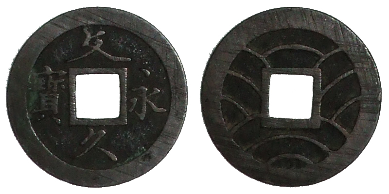 Bunkyu-eiho-sobun